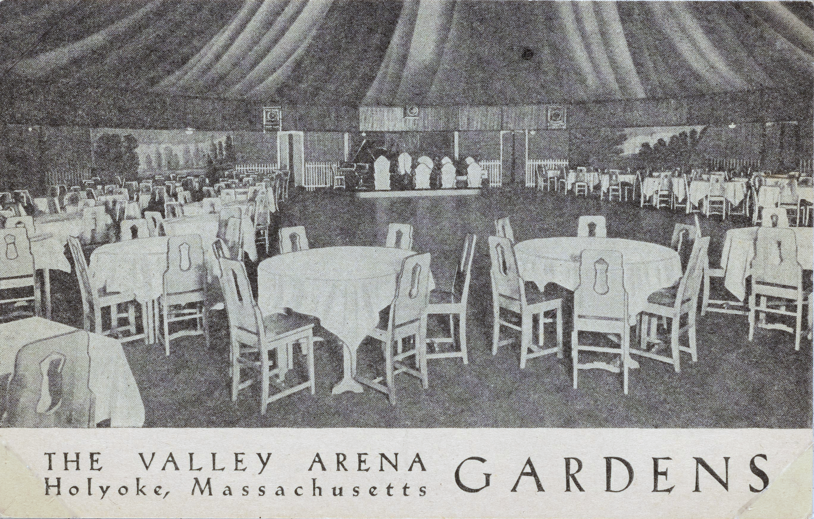 A postcard for the Pine Room nightclub of the Valley Arena Gardens in Holyoke, Massachusetts. Date is unknown but likely in the late 1940s or early 1950s. The Arena was razed by fire in 1960. No publisher is given for this postcard.